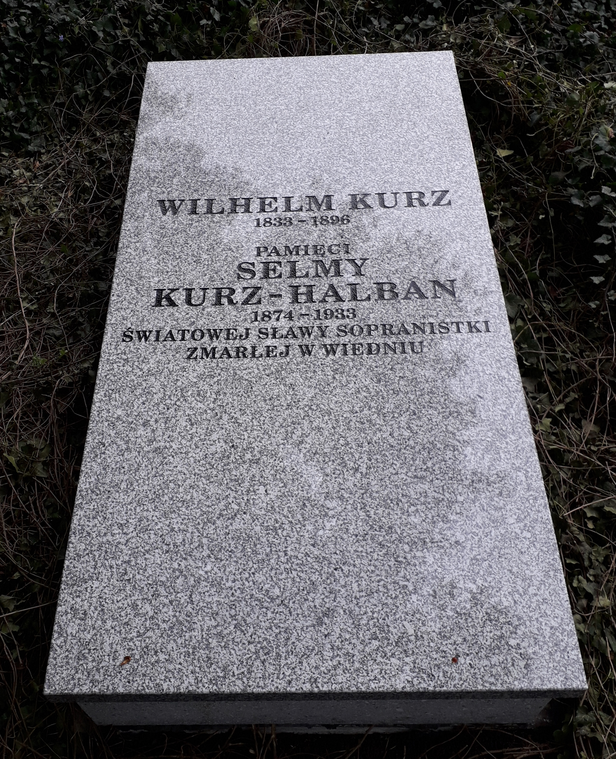 Tombstone at the Jewish cemetery in Bielsko-Biała. WILHELM KURZ 1833-1896 / Remembrance of SELMA KURZ-HALBAN 1874-1933 world-renowned soprano who died in Vienna